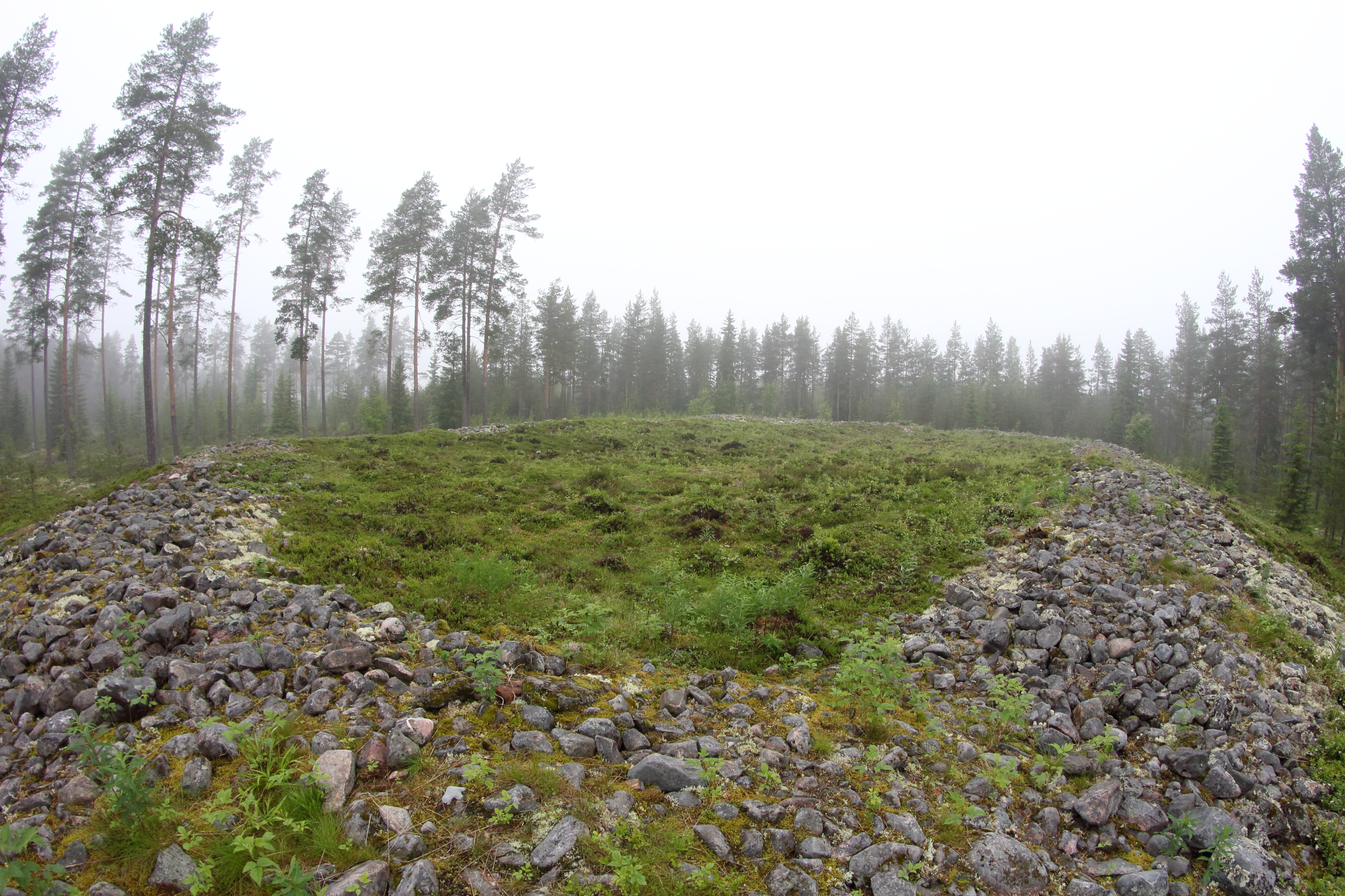 Kastelli Giant's church, a rectangular neolithic stone wall located in Raahe, Finland. Structure is photographed from its southeast corner towards the northwest corner.